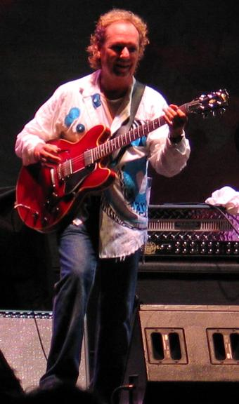 Lee Ritenour performing during a jazz festival.